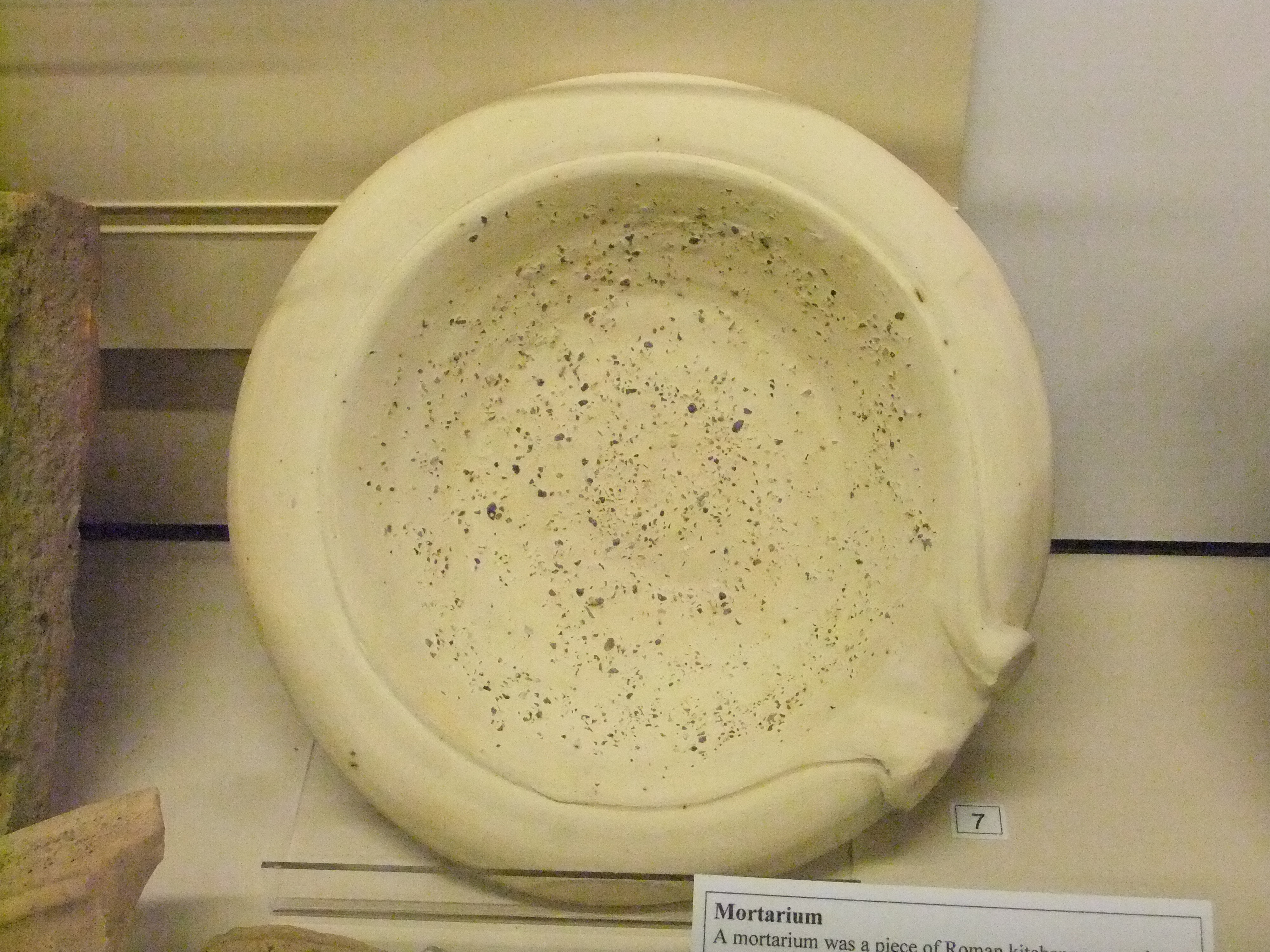 Photo of Mortarium taken at Ludlow Museum, Castle Street, Ludlow, Shropshire, England.